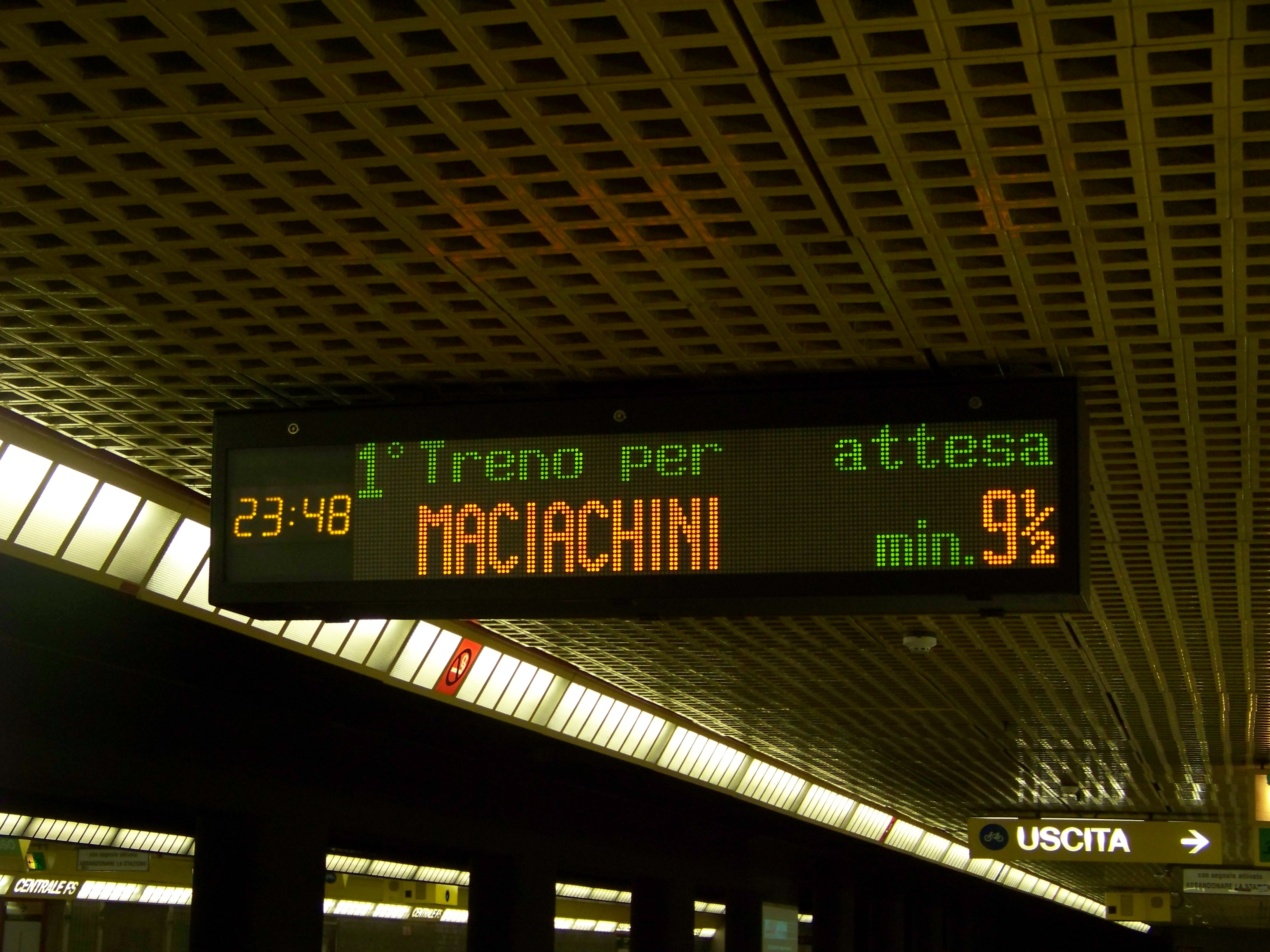 The subway stops in Milan have a running timer of when the next train will arrive. Usually it's no more than 3 or 4 minutes but at night they come less often.